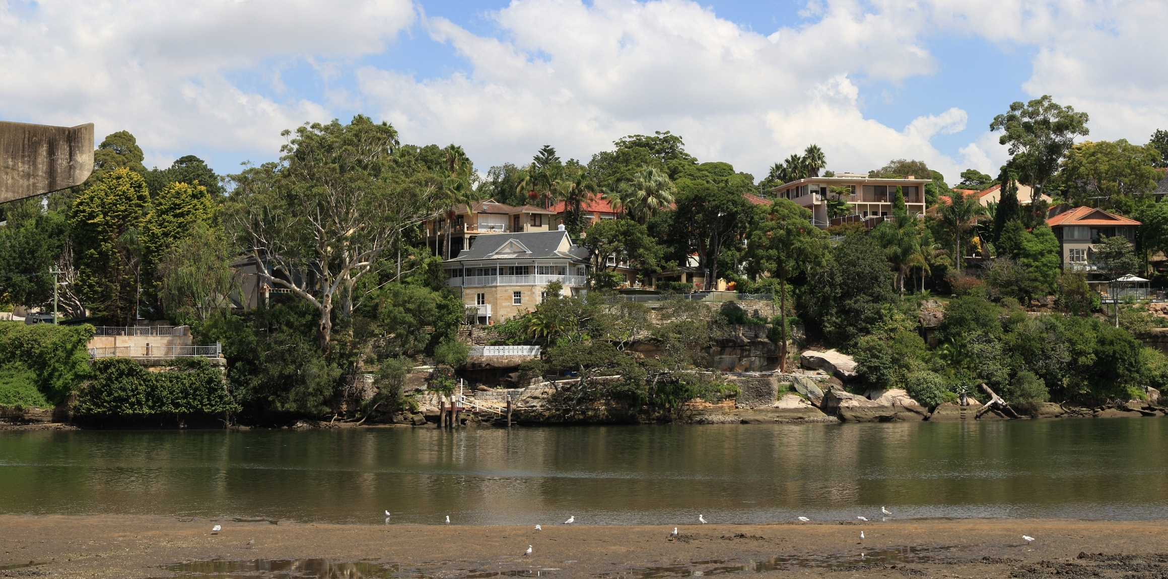 Houses in Hunters Hill, New South Wale as seen from Loop Road